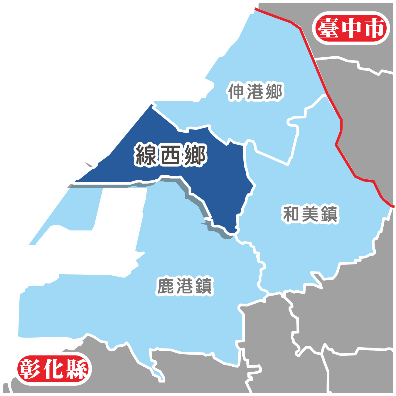 Xianxi Township